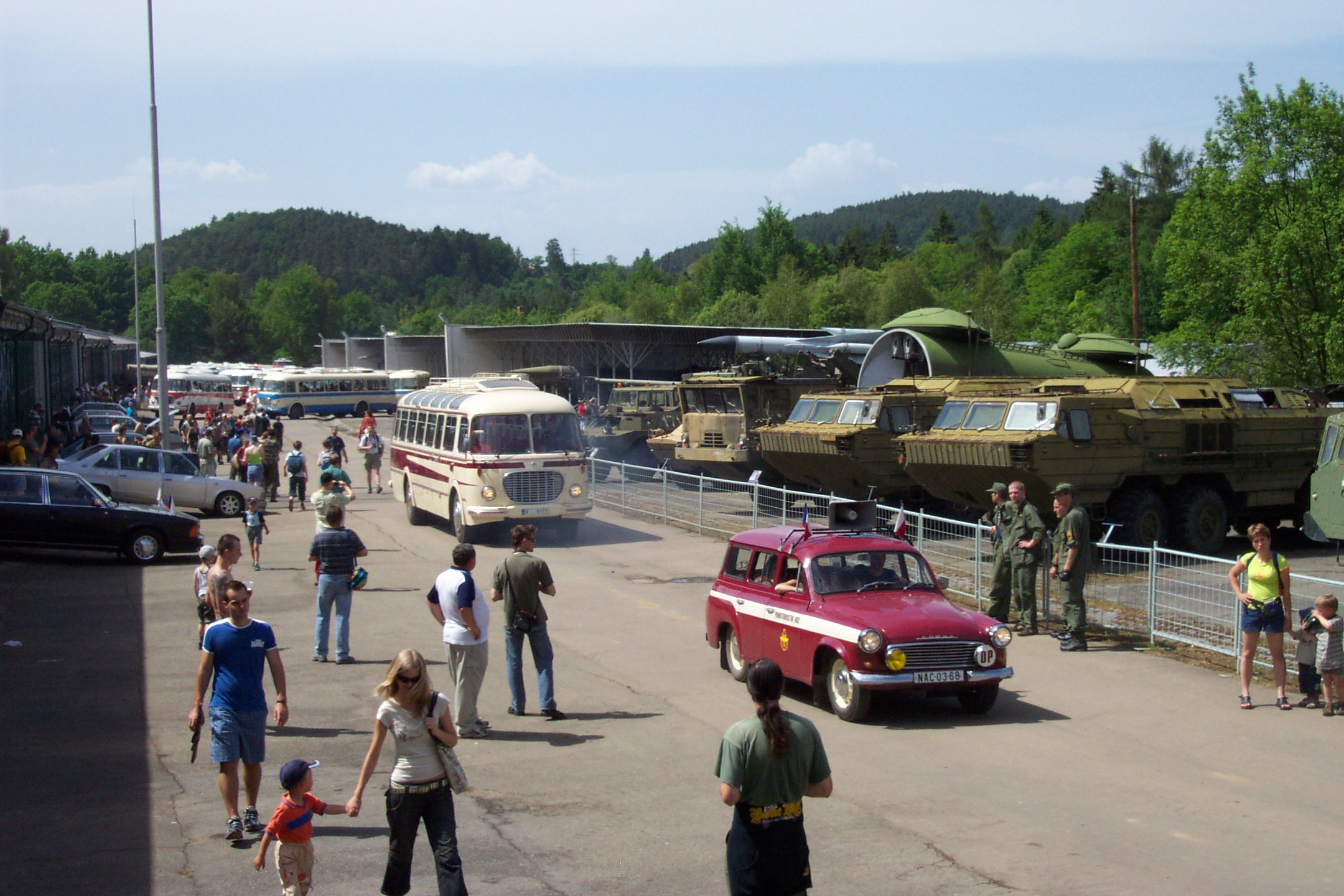 Historic service car of Prague transport authority in Lešany museum